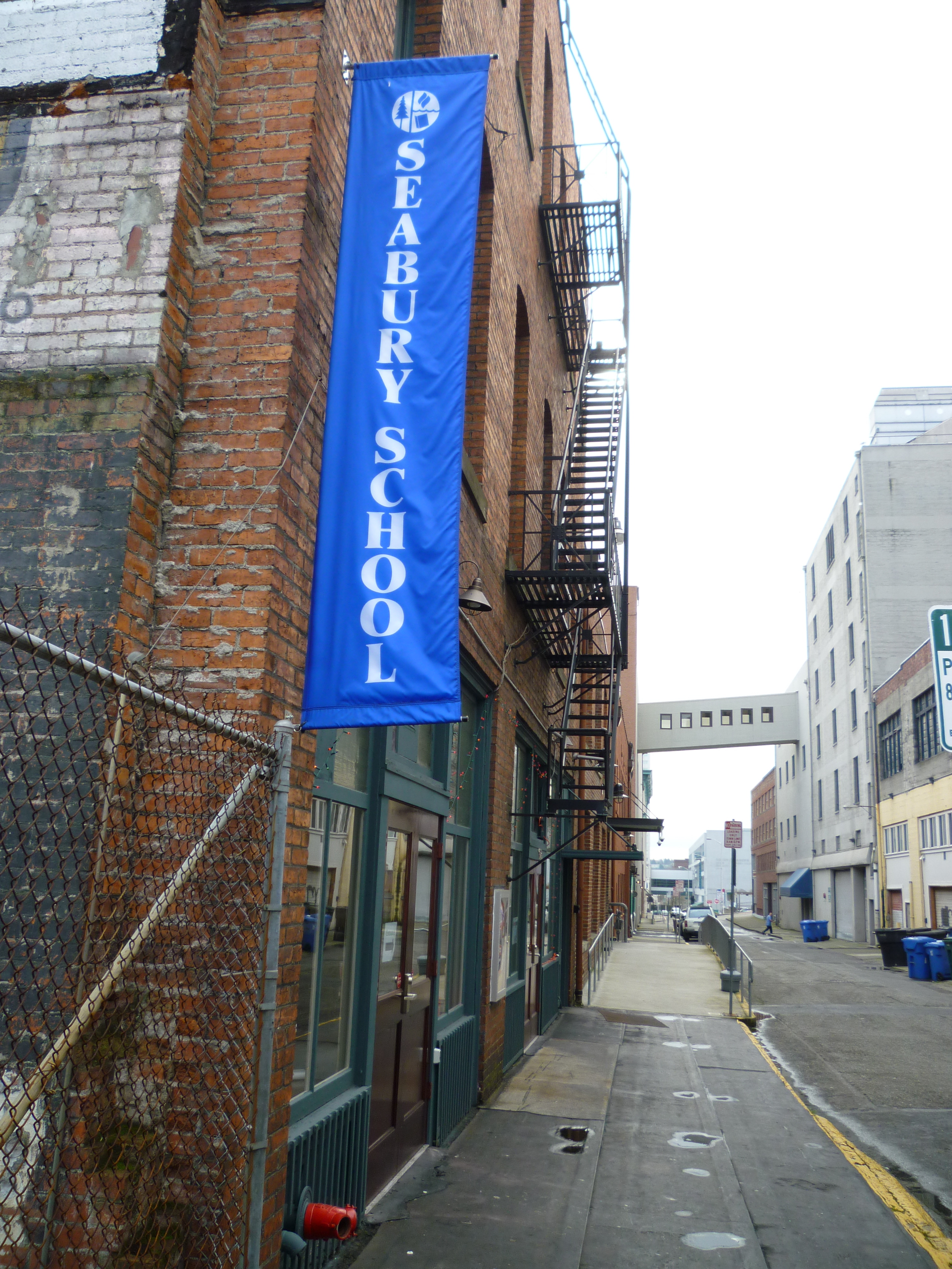 Photo of Seabury Middle School on Court C in Tacoma, Washington.